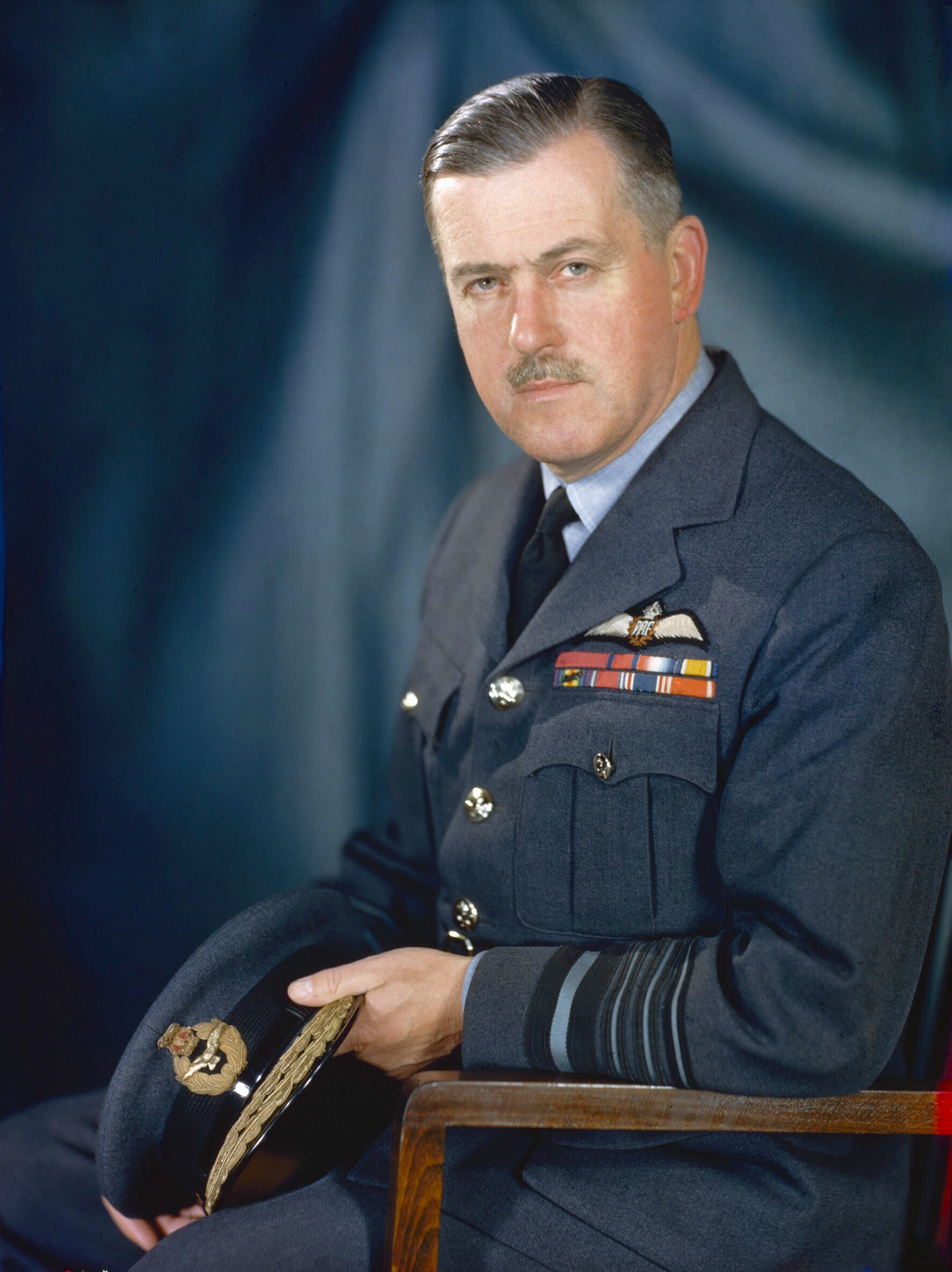 Air Chief Marshal Sir Trafford Leigh-Mallory, KCB, DSO, 1944 Half length portrait.